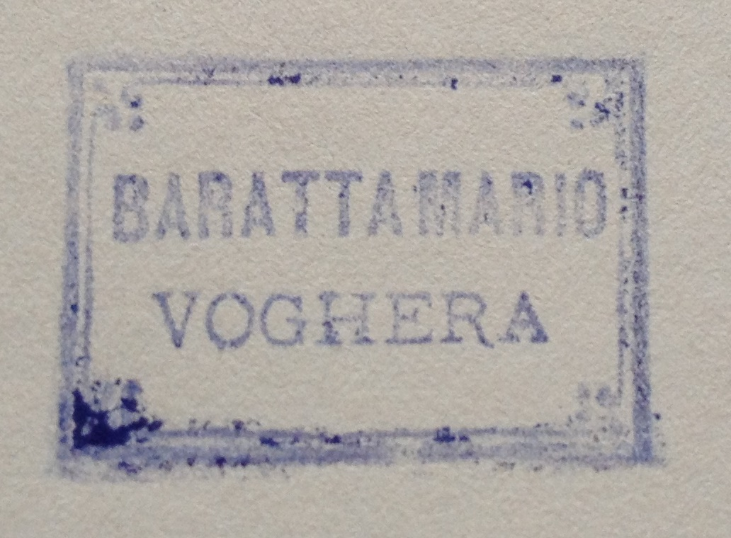 Bario Baratta stamp